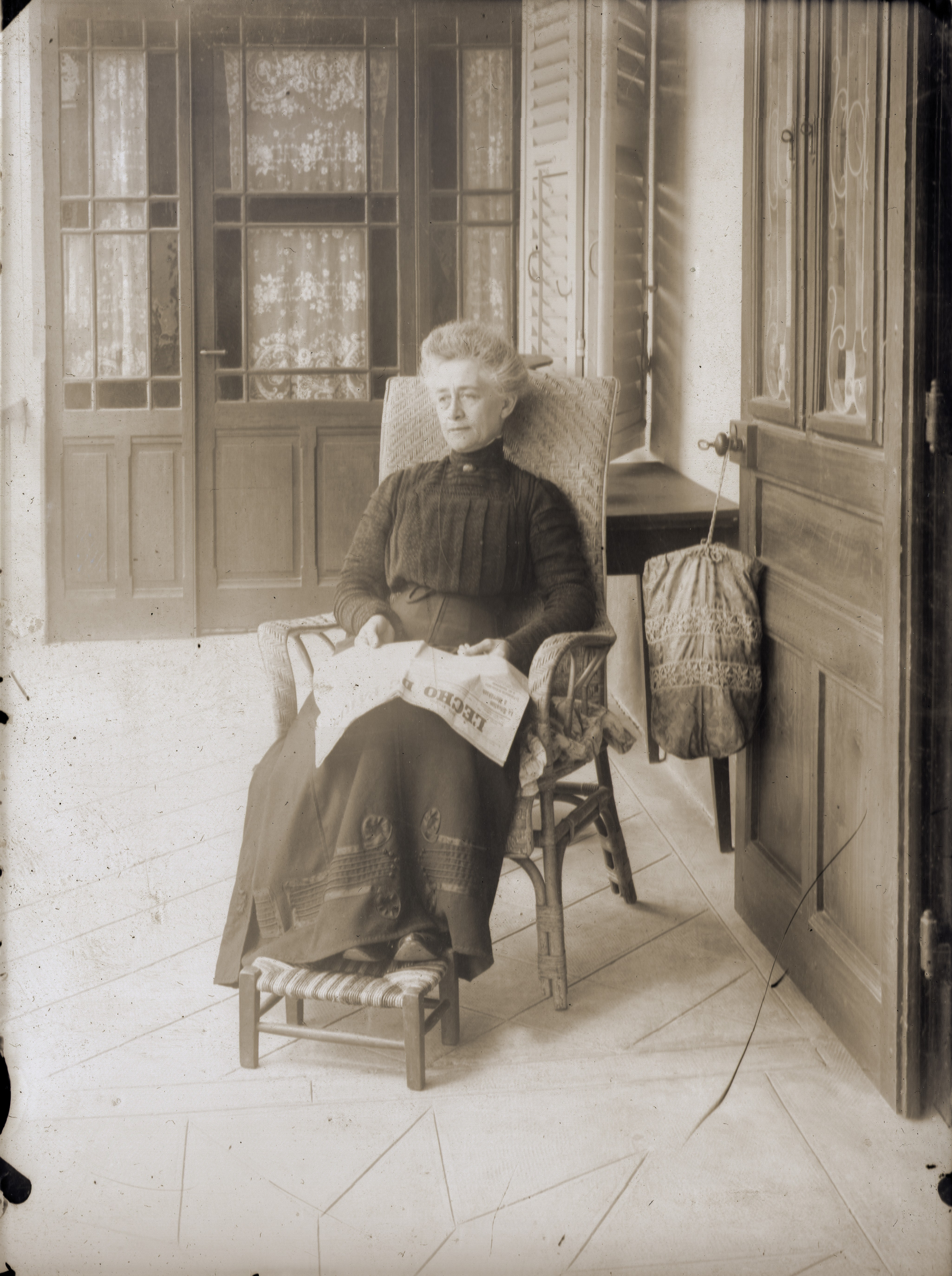 Scanned photographic plate. The plate was bought at a flea market in France. The picture shows a seated woman with a newspaper on her knees (the name of the newspaper is L'écho de Paris, where the word Paris is difficult to read). The scan file of the negative has been treated with Gimp to obtain the positive picture and the sépia tone.